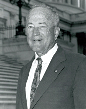 William Lehman, US Representative from Florida